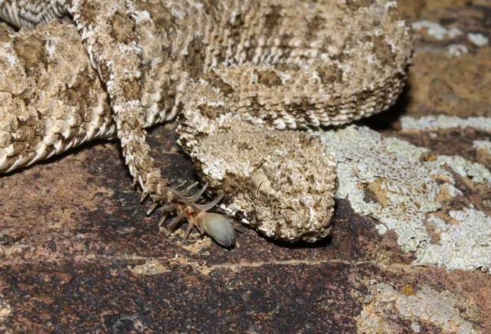 Pseudocerastes urarachnoides, this photo depicts an animal that was captive or collected. photo location: Karaj, Jaroo mountain. animal's place of origin: Ilam, Iran.